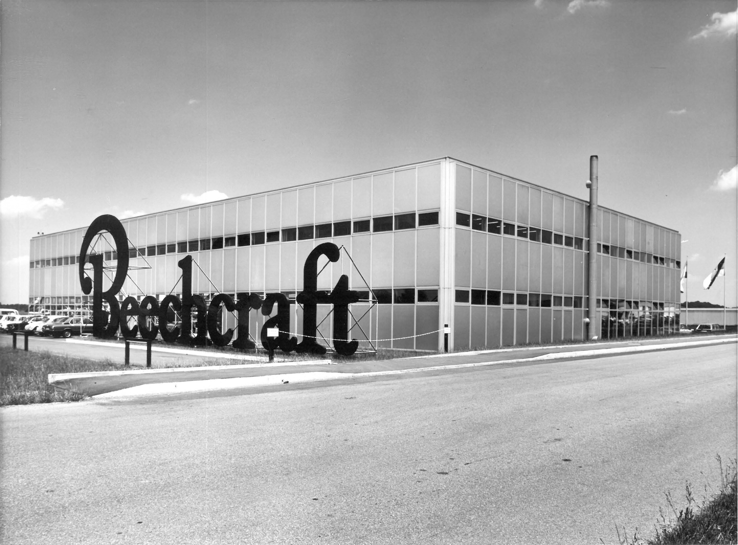 Street view of the Beechcraft Vertrieb & Service aircraft maintenance hangar in 1977, shortly after it was established, b&w image